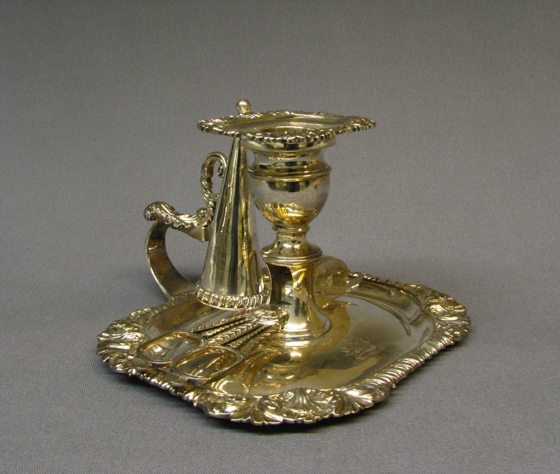 Chamber candlestick; British, London; Metalwork-Silver